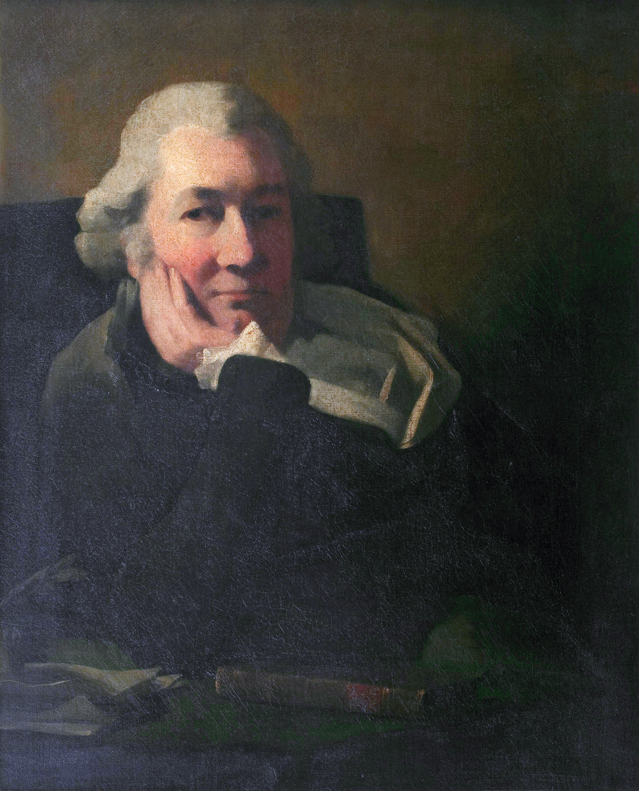 Robert Cunningham Graham of Gartmore (1730-1798), Doughty Deeds oil on canvas 75 x 62 cm